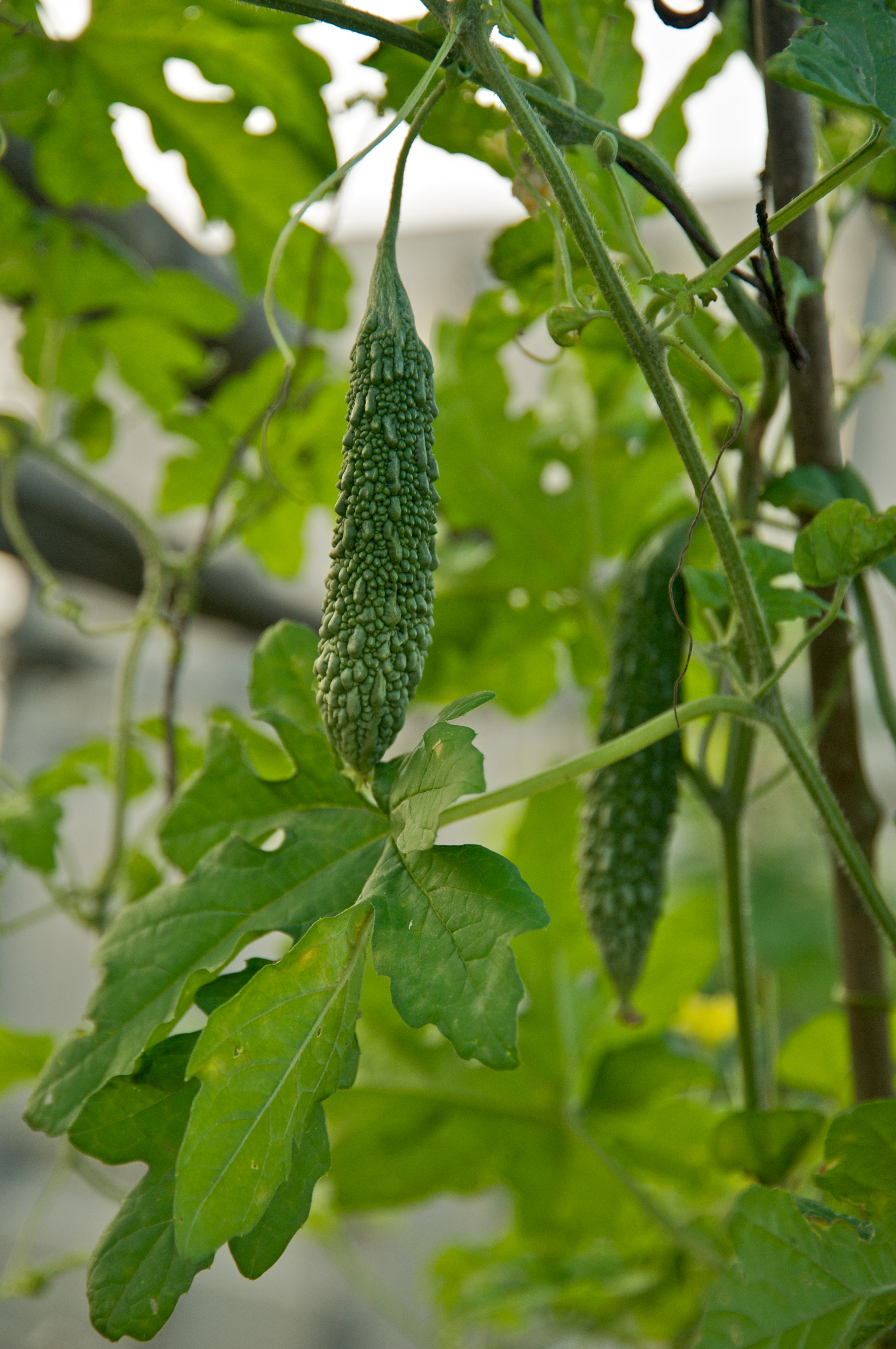 Bitter gourd in a small-scale organic farm in Tainan City, Taiwan